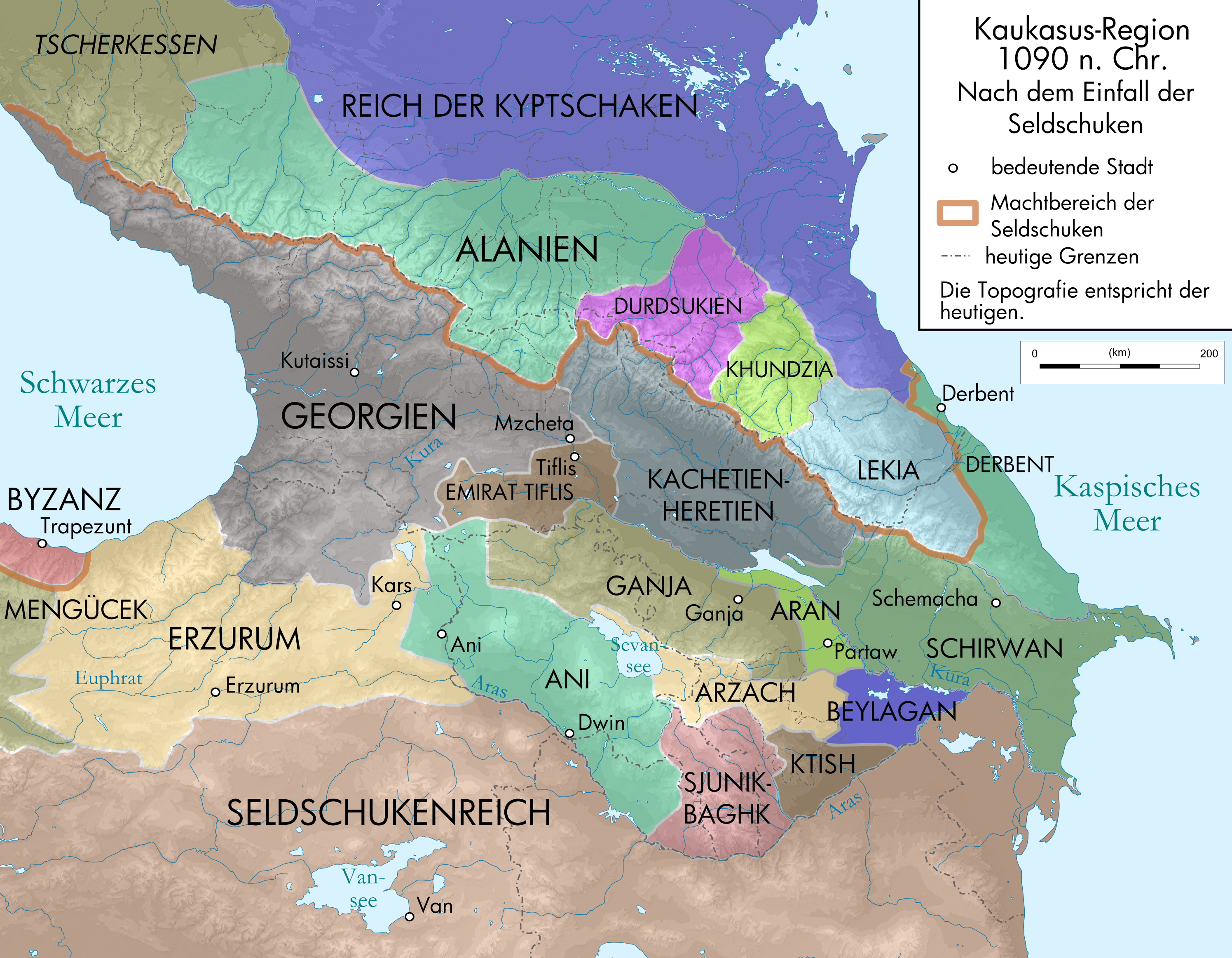 Map of Caucasus Region around 1090 AC in German.